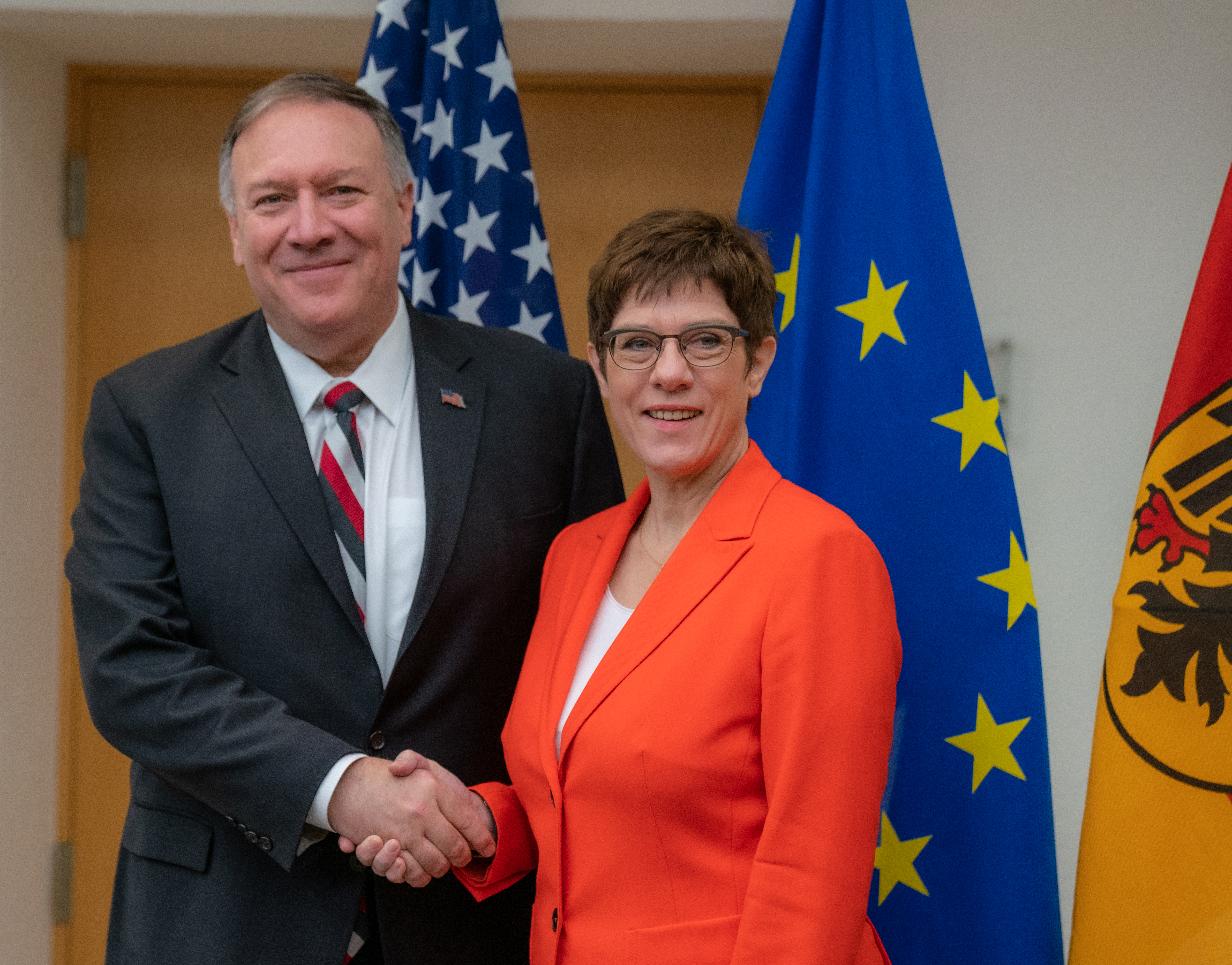 Secretary of State Michael R. Pompeo met with German Defense Minister Annegret Kramp-Karrenbauer in Berlin, Germany, on November 8, 2019. [State Department photo by Ron Przysucha/ Public Domain]